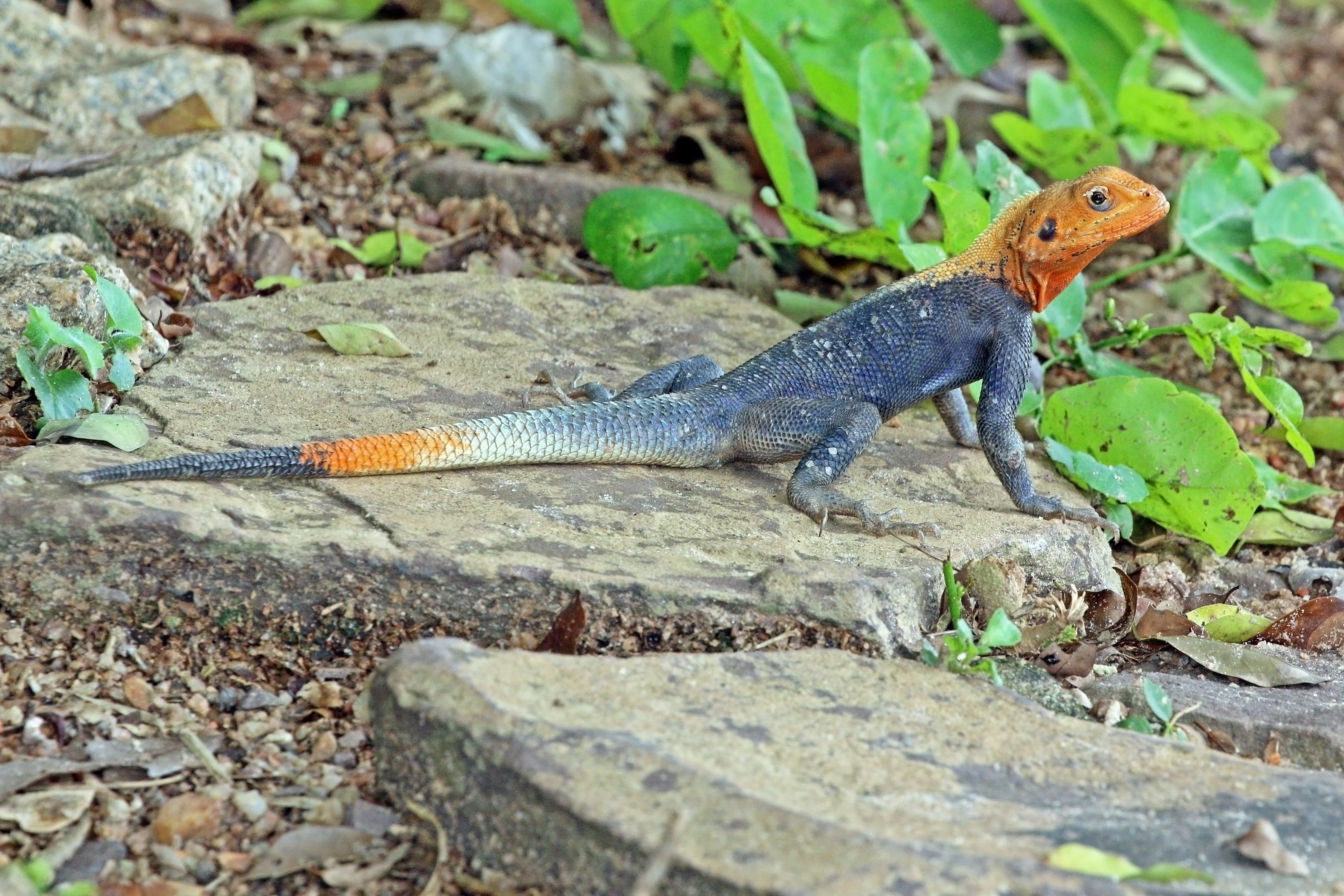 Red-headed rock agama (Agama agama) male, Kakum National park, Ghana